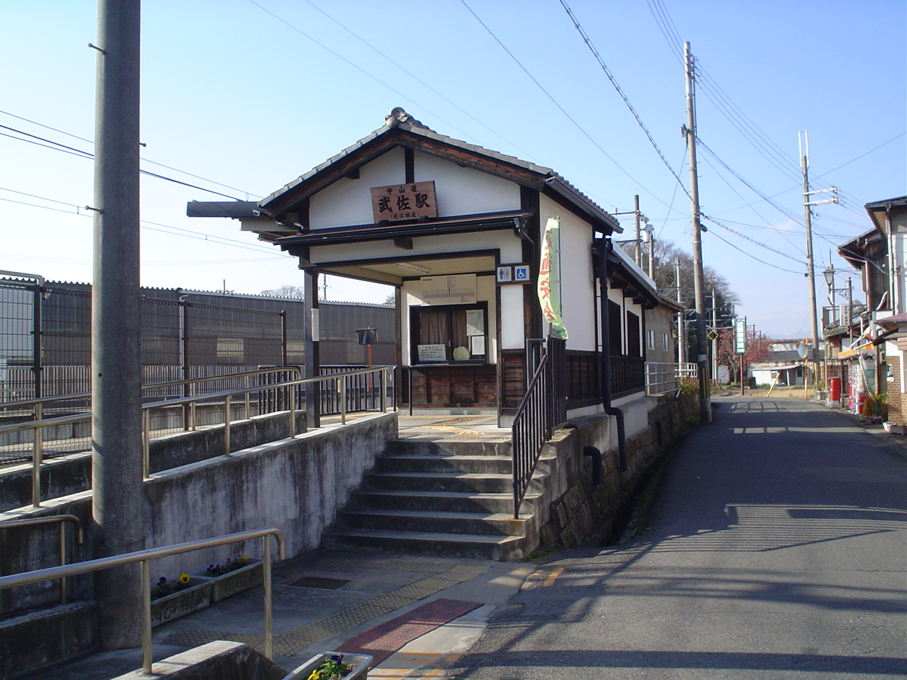 Musa Station in shiga pref, japan